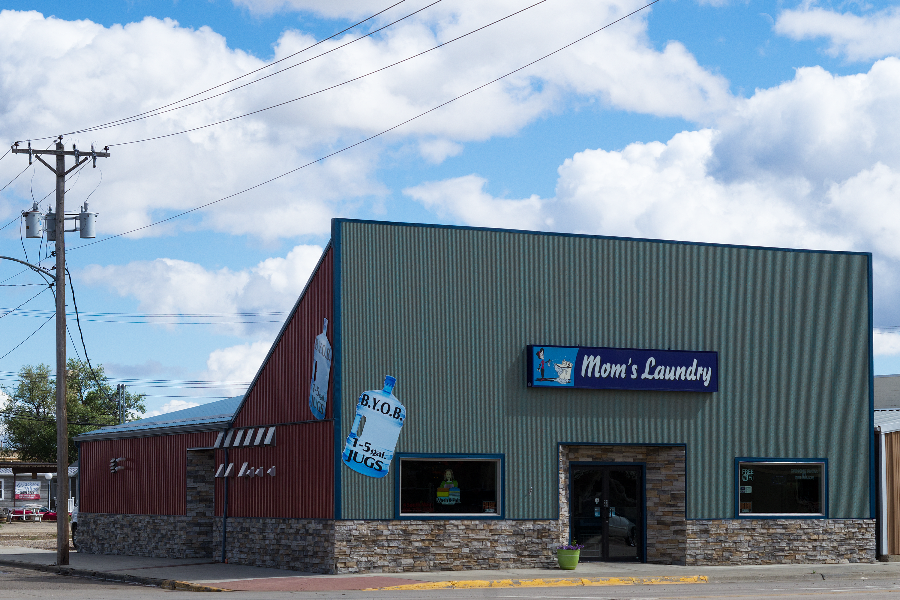 The Baker Hotel was destroyed and replaced by this building.